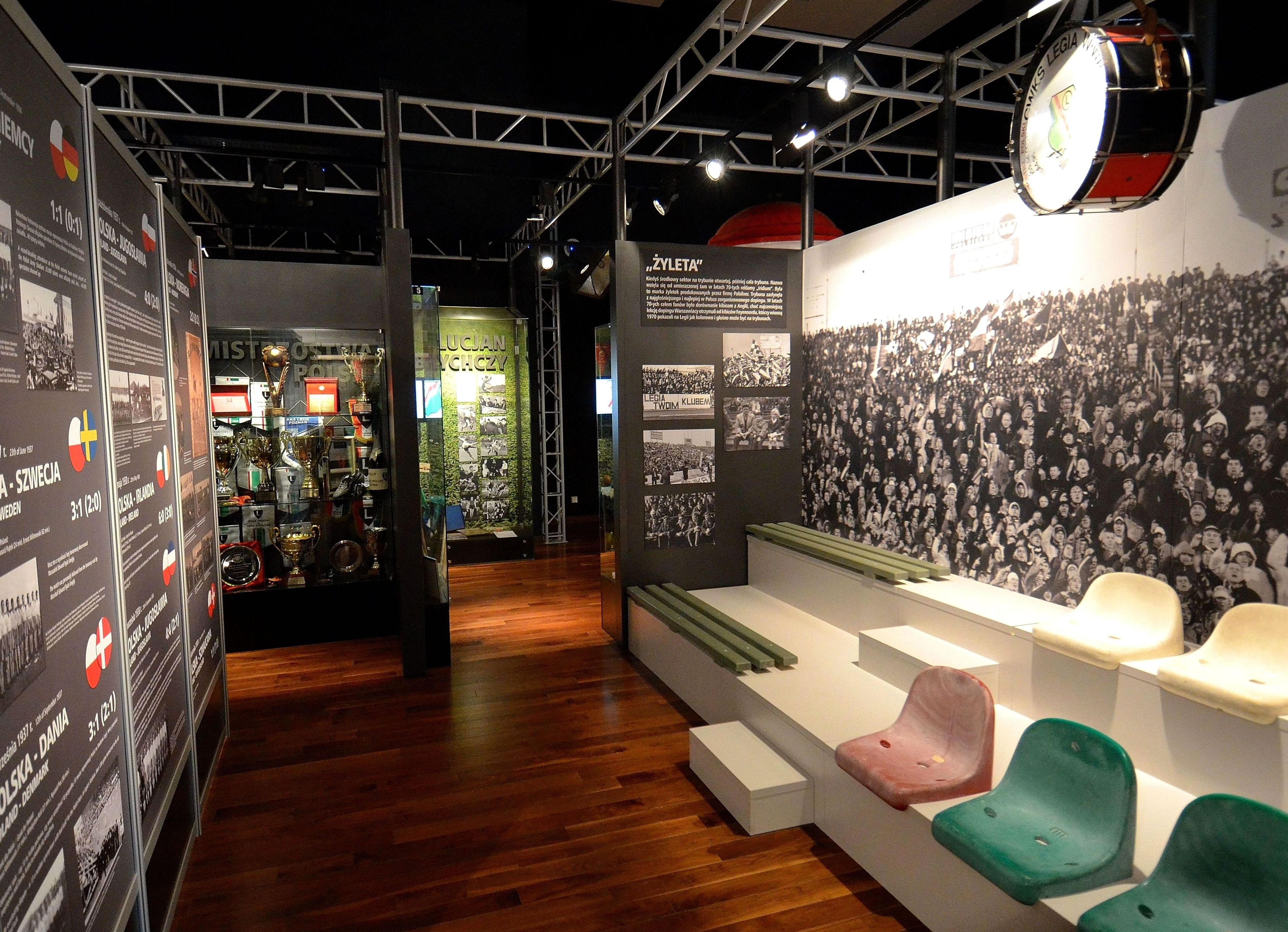 Legia Warszawa Museum